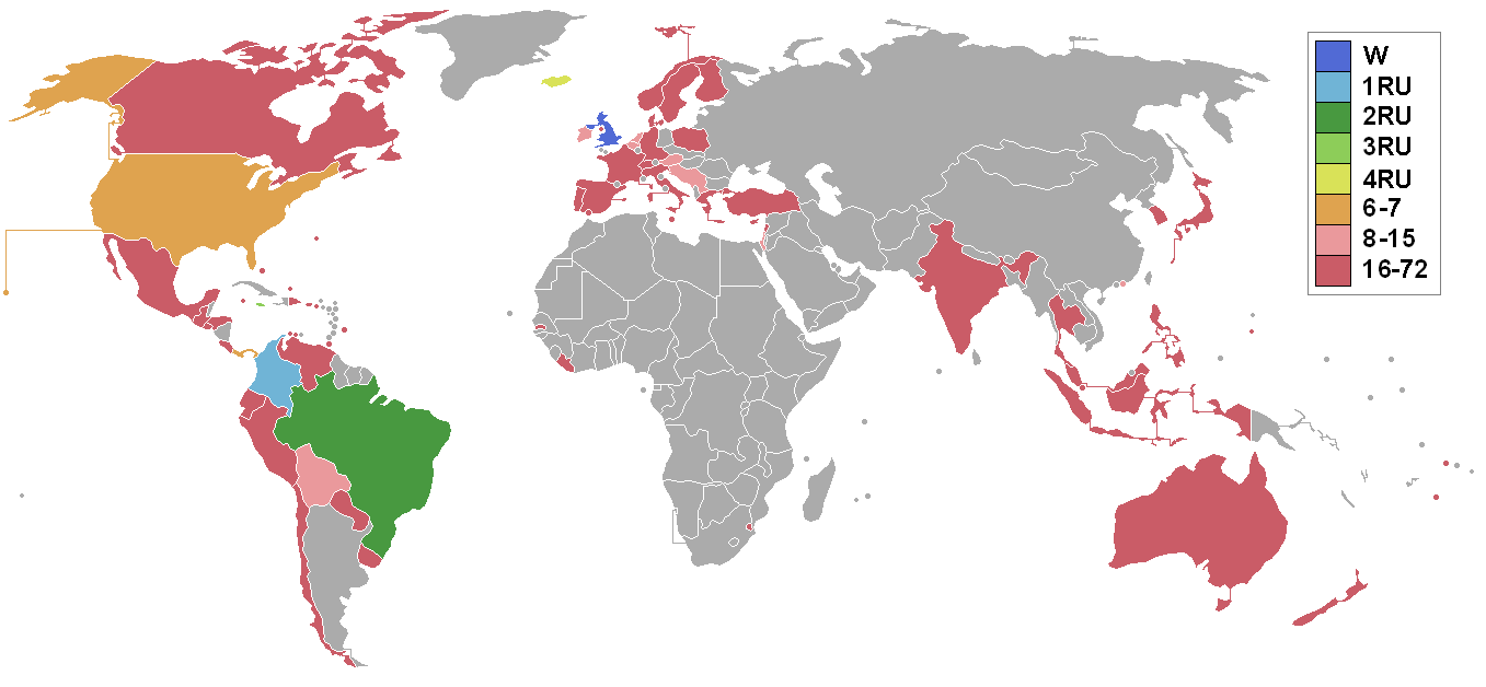 image created by Joey80